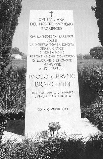 gravestone of Brancondi Brothers